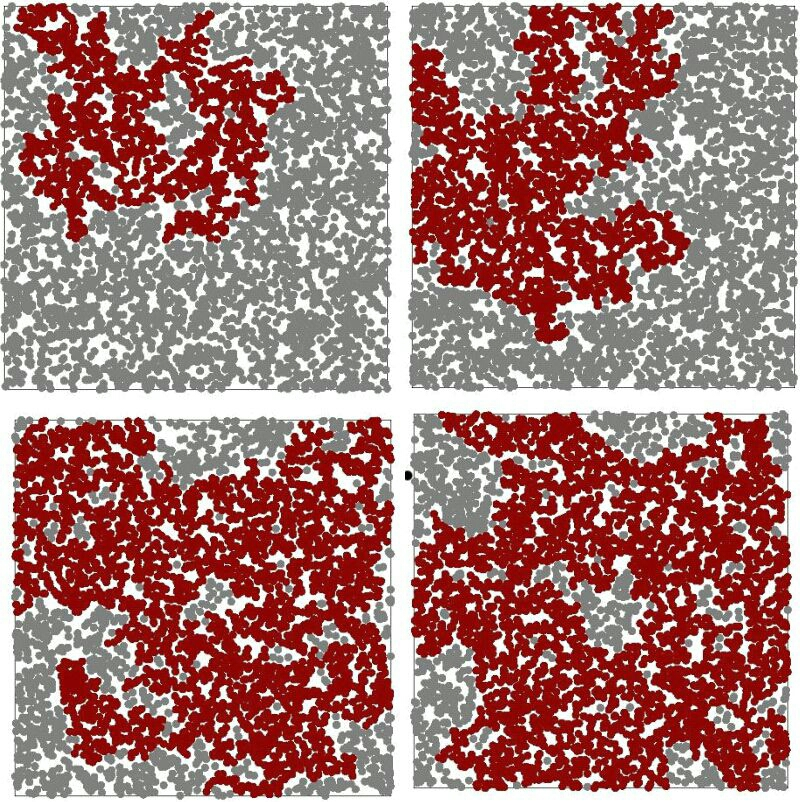 This shows the simulation of 4 Poisson Boolean models as the density of points increases (top left has the smallest density, bottom right the largest). Radii are constant (also known as the Gilbert disk model). The red clusters are the largest components in the sample window.